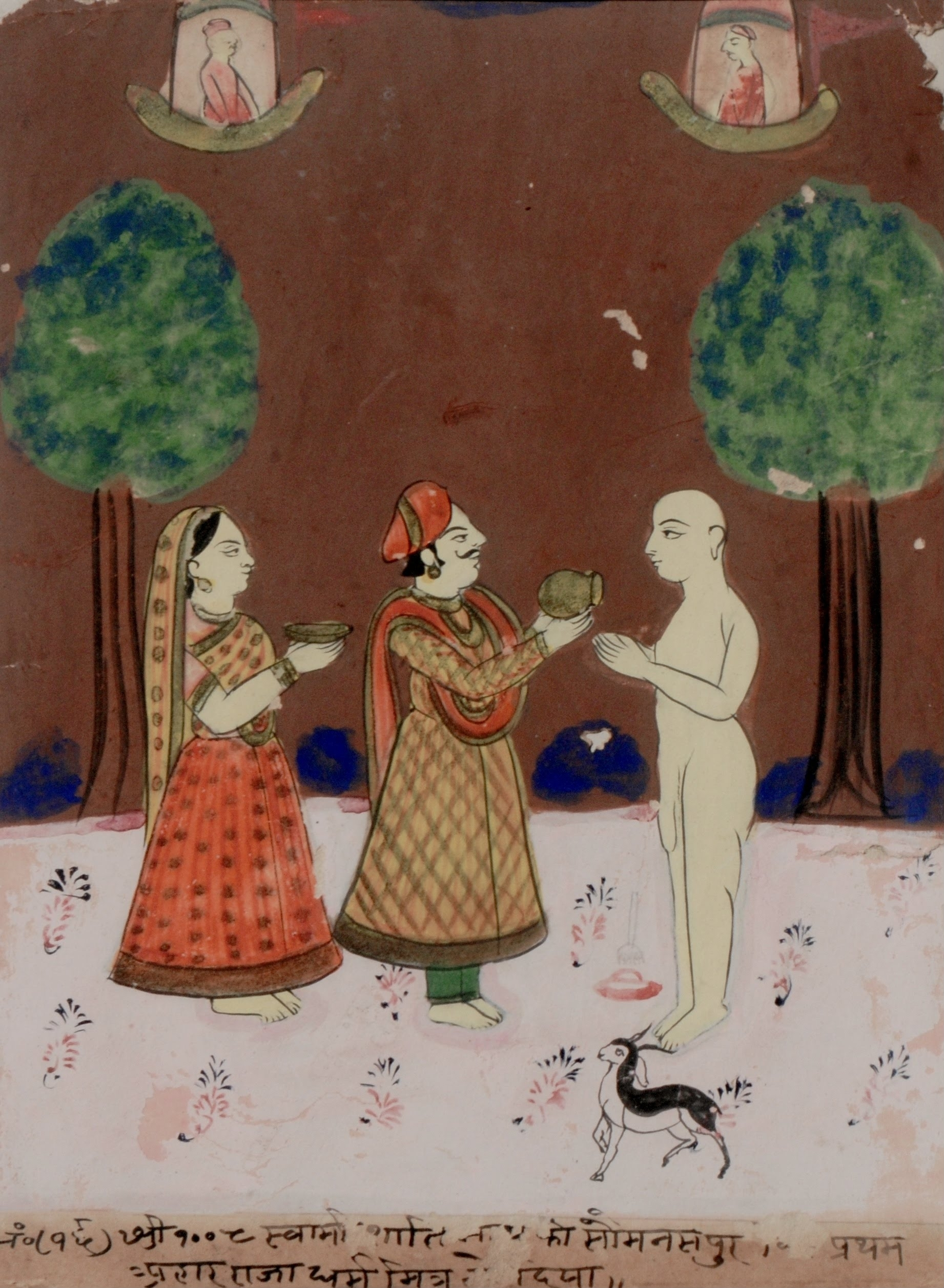 Raja Dharma Mitra offering food to Tirthankara Shantinatha - Unknown, Rajasthan School - Google Cultural Institute. 28 X 22 cm. King Dharma Mitra and his wife are offering first ahara food, to the sixteenth Jain Tirthankara Shantinatha after he attained kevalajanana (absolute knowledge). As acclaim Jain texts, during his long years of penance, Shantinatha had neither taken any sleep nor food. After he attained absolute knowledge he came to Somanasapur where king Dharma Mitra offered him his first meal. Well versed in Jain rituals and customs, the painter has rightly portrayed the bare-footed king pouring water the initial course of ahara, into the hollowed hands of the divine guest, with his wife carrying the tray of food for the second course. As prescribed, a Jain monk did not use any bowl or other pot.